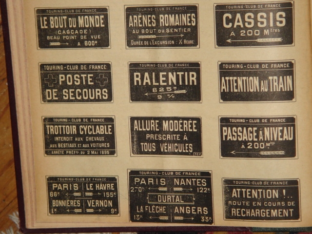 Page showing the road signs placed by the Touring-Club de France, taken from the club's magazine Revue Touring Club, date circa 1905